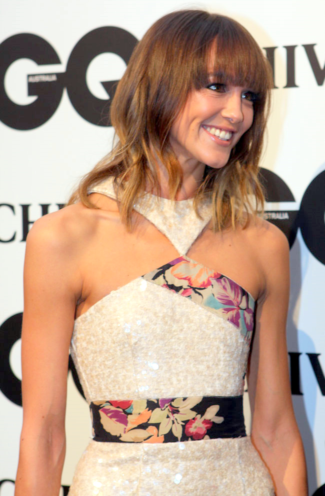 Sharni Vinson at the GQ Men of the Year Awards 2011.